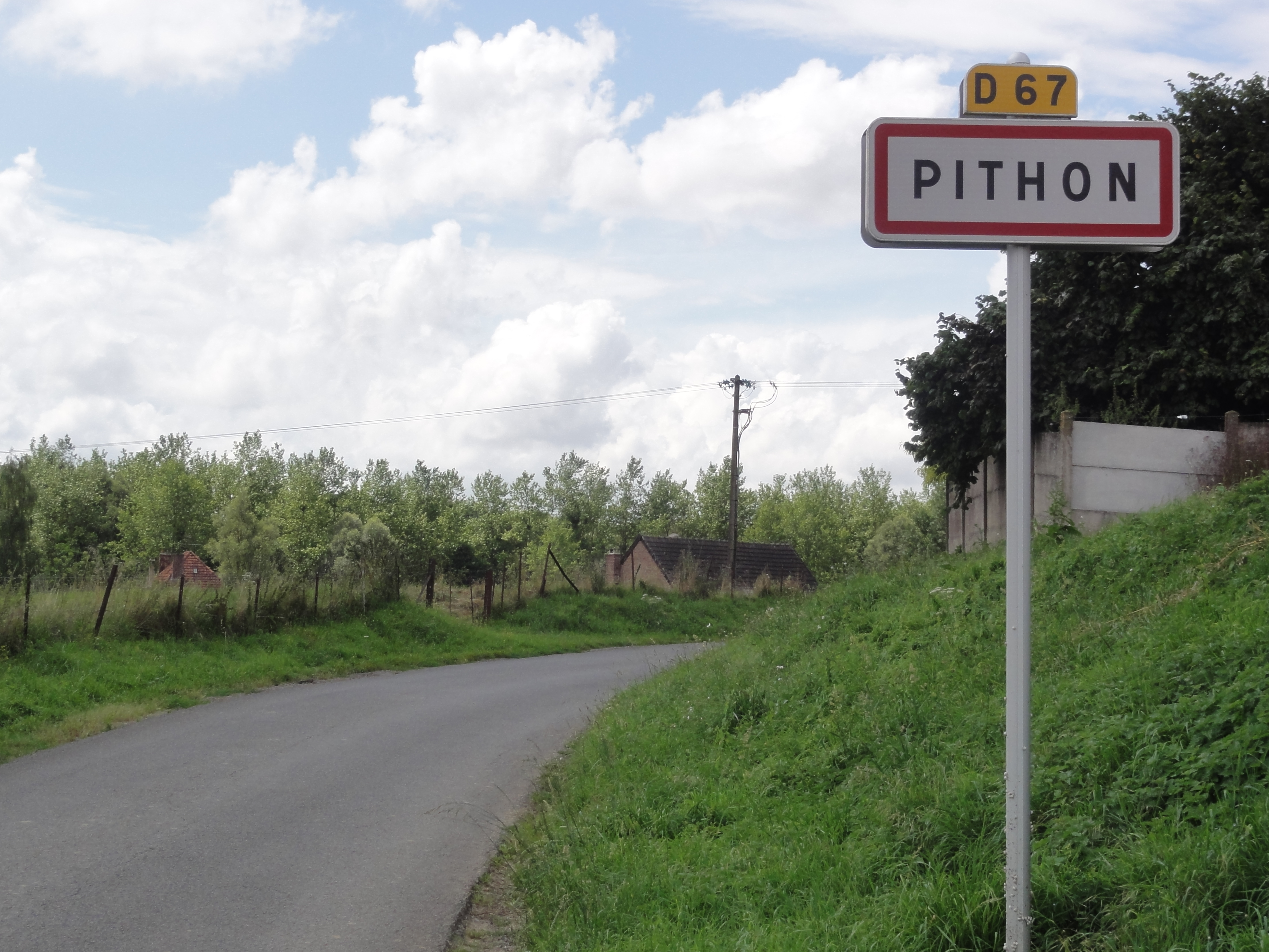 Pithon (Aisne) city limit sign